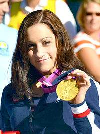 A picture of Jordyn Wieber before the Ox Roast Parade 2012